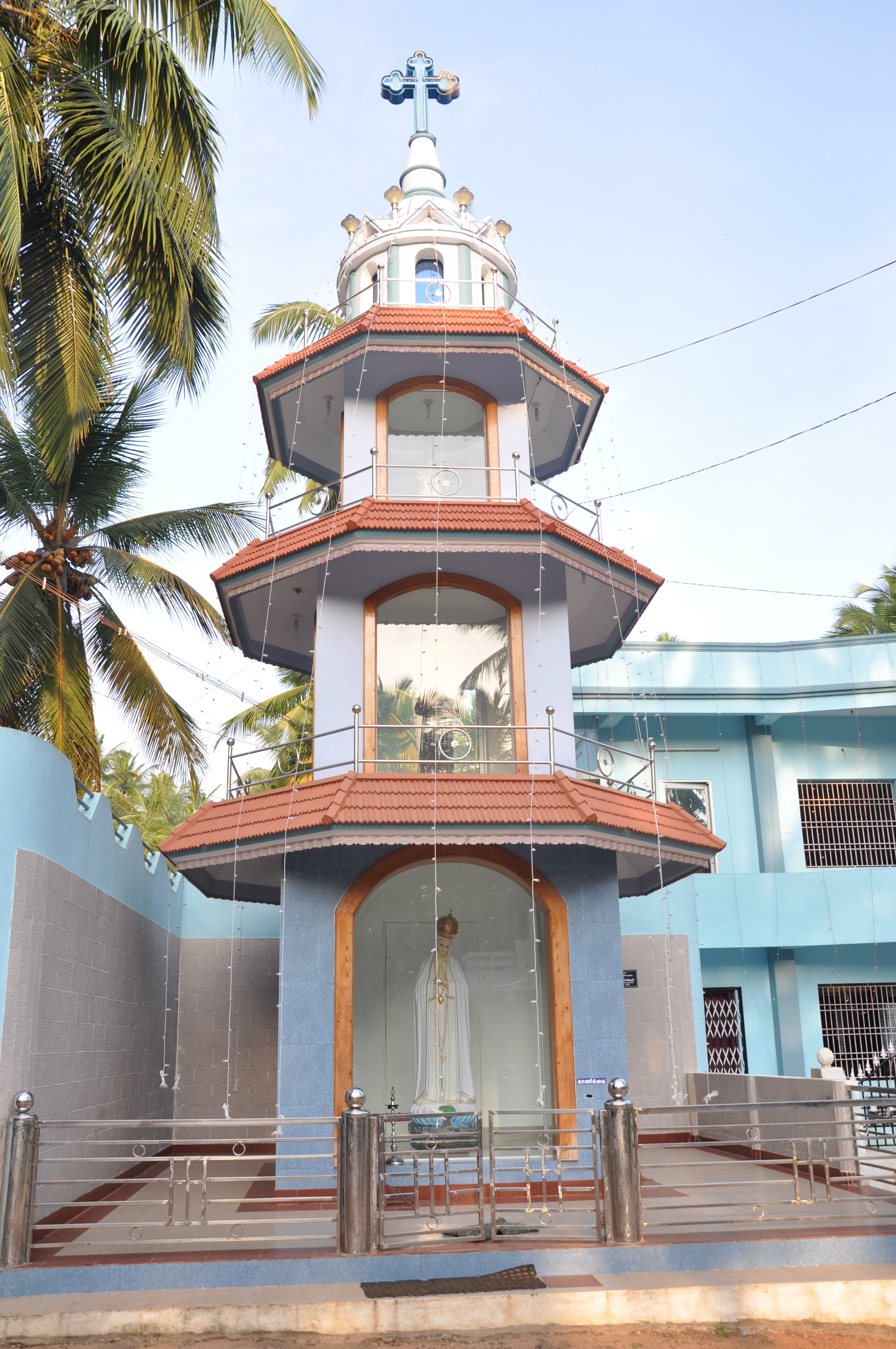 Kallukoottam Parish Kurusadi/Shrine